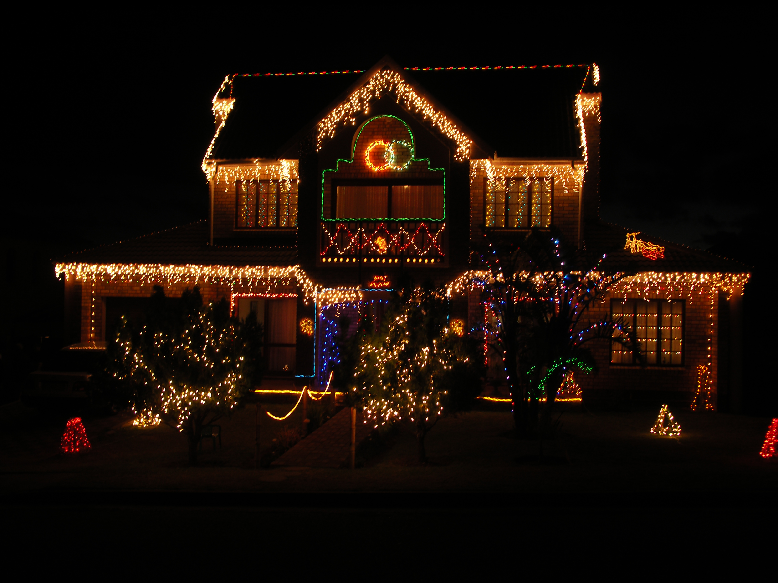 House decorated for Christmas. Jeffreys Bay, Eastern Cape, South Africa